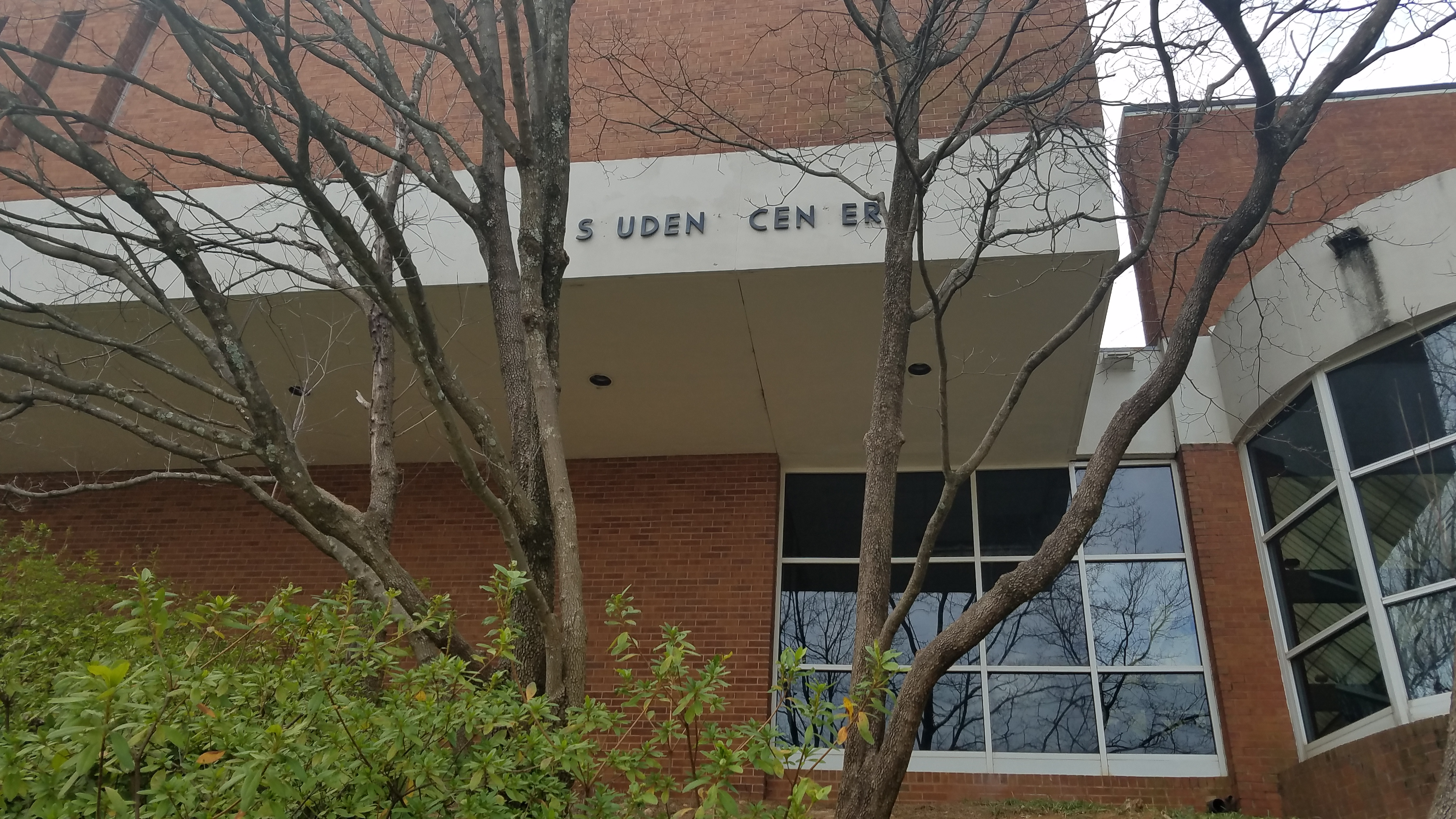 Defaced sign for the student center on the main campus of the Georgia Institute of Technology, Atlanta, Georgia, United States